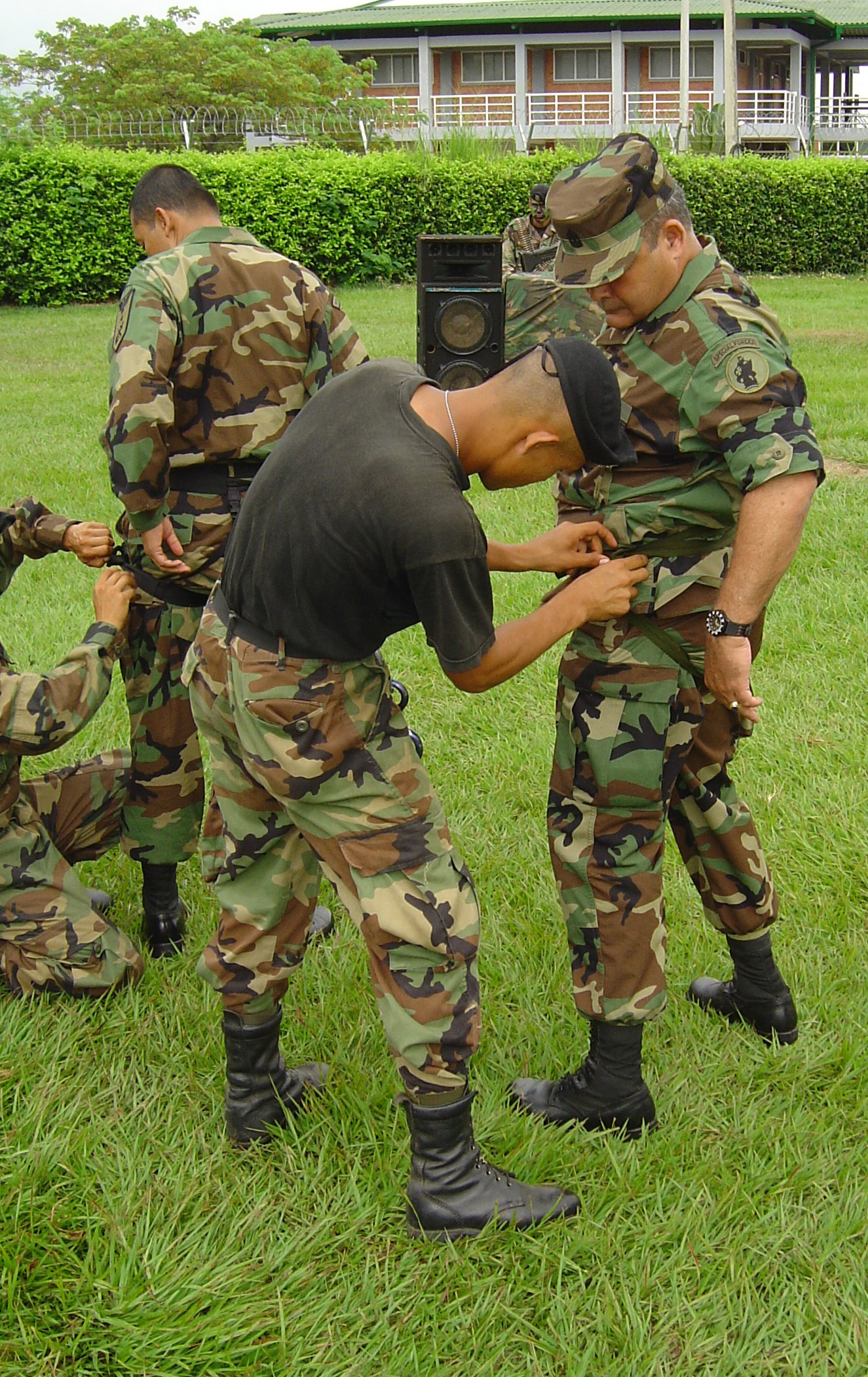 U.S. Army, South, SGM Carlos Zayas puts the finishing touches on a “Swiss seat” with the assistance of a Colombian soldier before rappeling at the Tolemaida Military Academy.